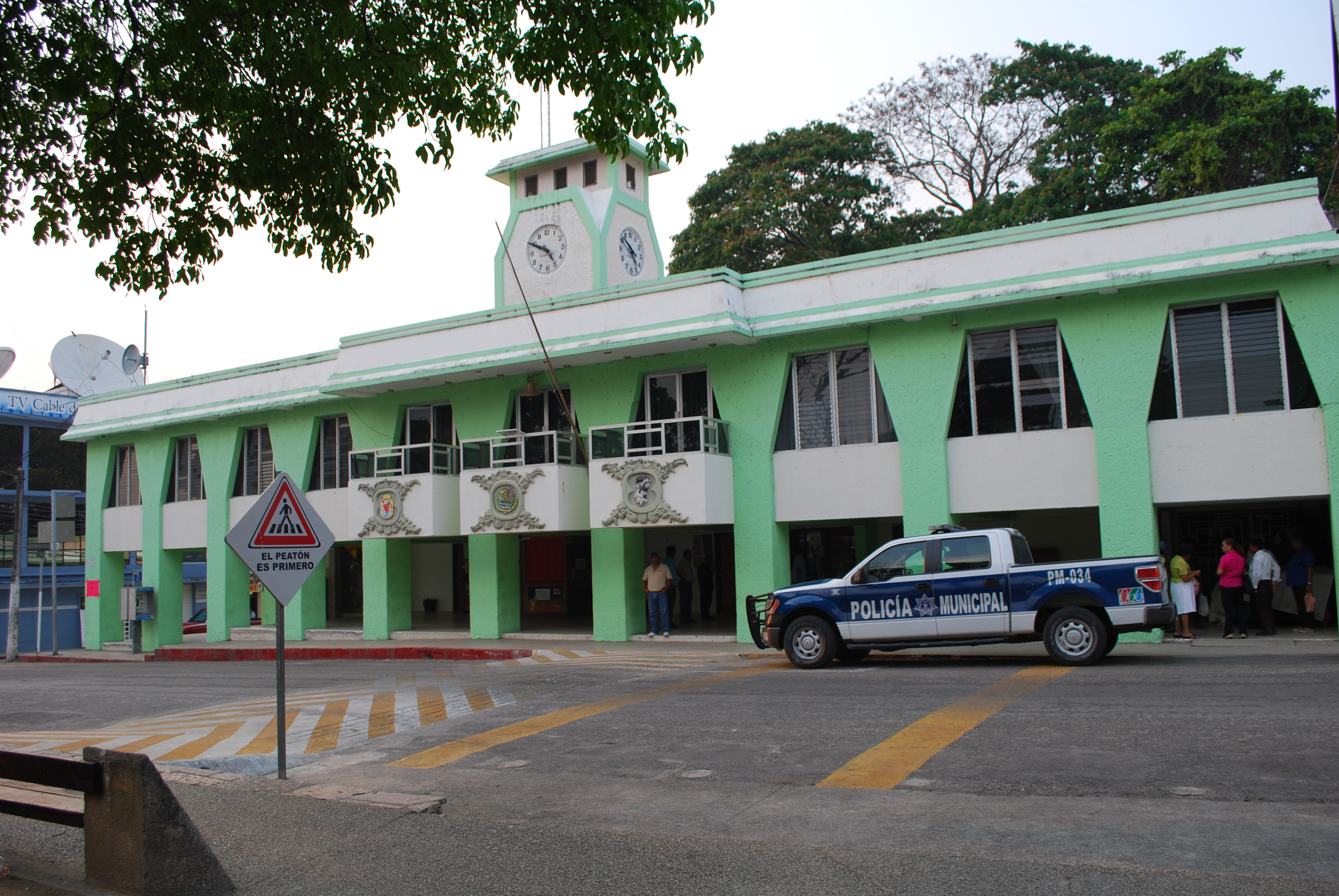 Municipal palace of Palenque, Chiapas, Mexico